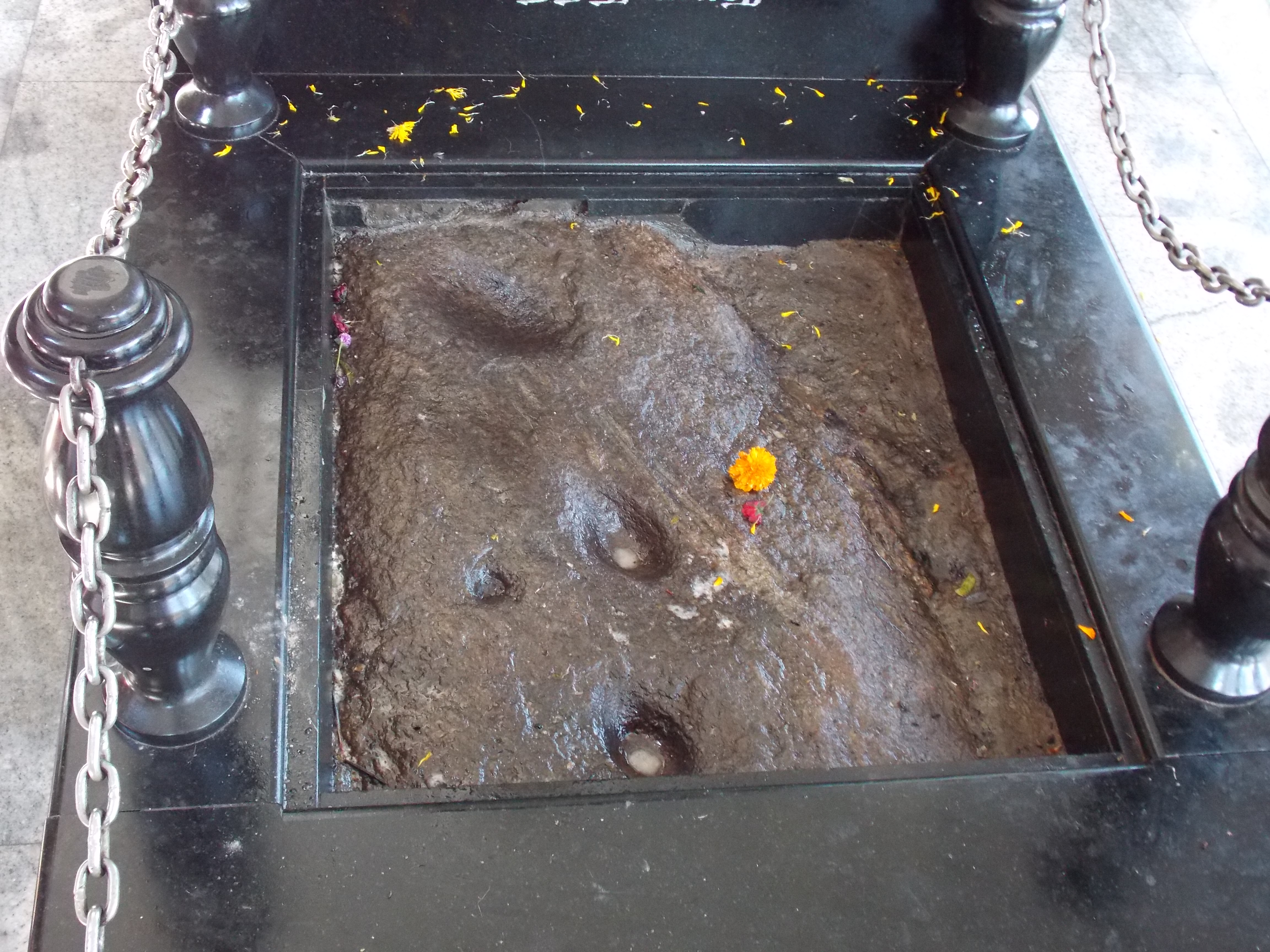 Close up of the rock on which Bl. Devasagayam prayed which is said to have his knee print on it